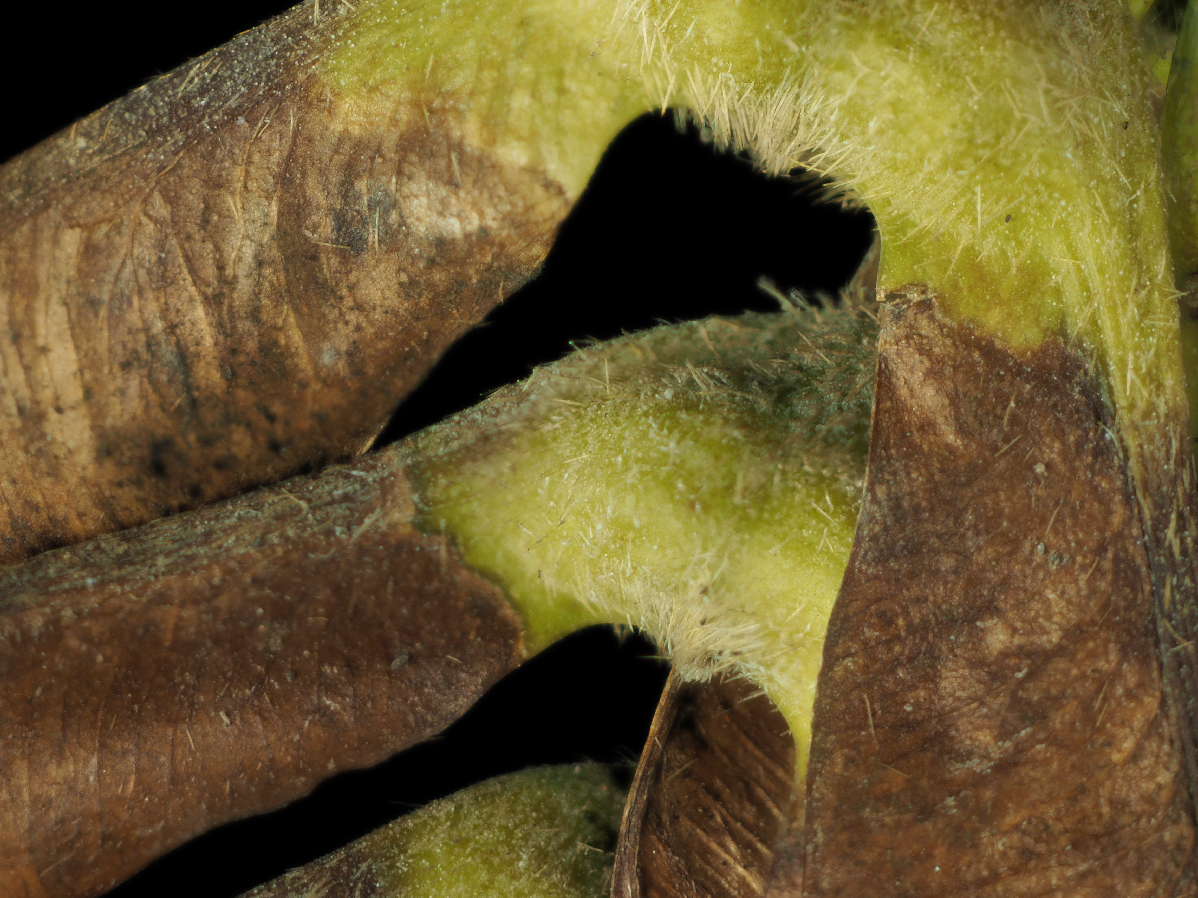 Acer macrophyllum—big leaf maple. Nearly ripe samaras that measure about 1 1/2 inches long . The tree that bore these seeds is at Regional Parks Botanic Garden located in Tilden Regional Park near Berkeley, CA.